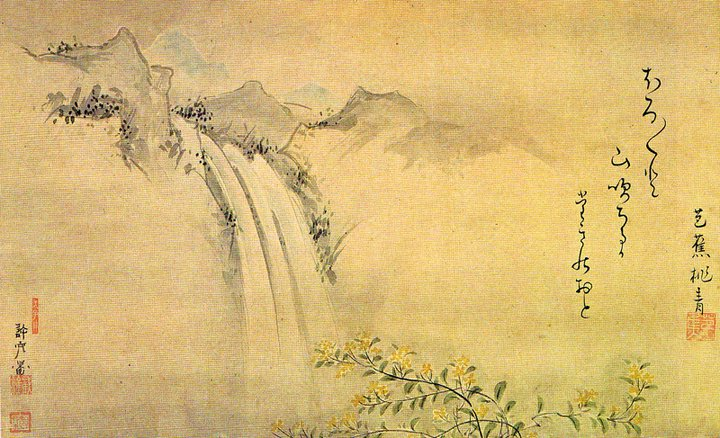 Picture and Poem by Matsuo Basho: ほろほろと山吹ちるかたきのおと Basho Tosei: horohoroto yamabuki taki no oto (IB-371-2, 1688) Translation: Quietly, quietly,/ yellow mountain roses fall –/sound of the rapids. (Makoto Ueda)